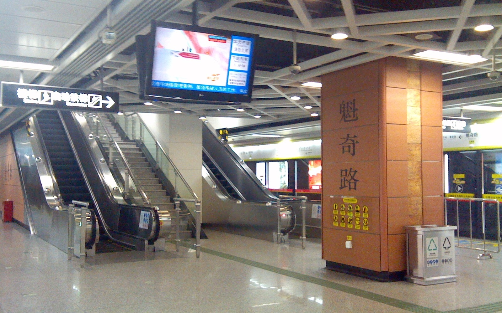 魁奇路车站月台